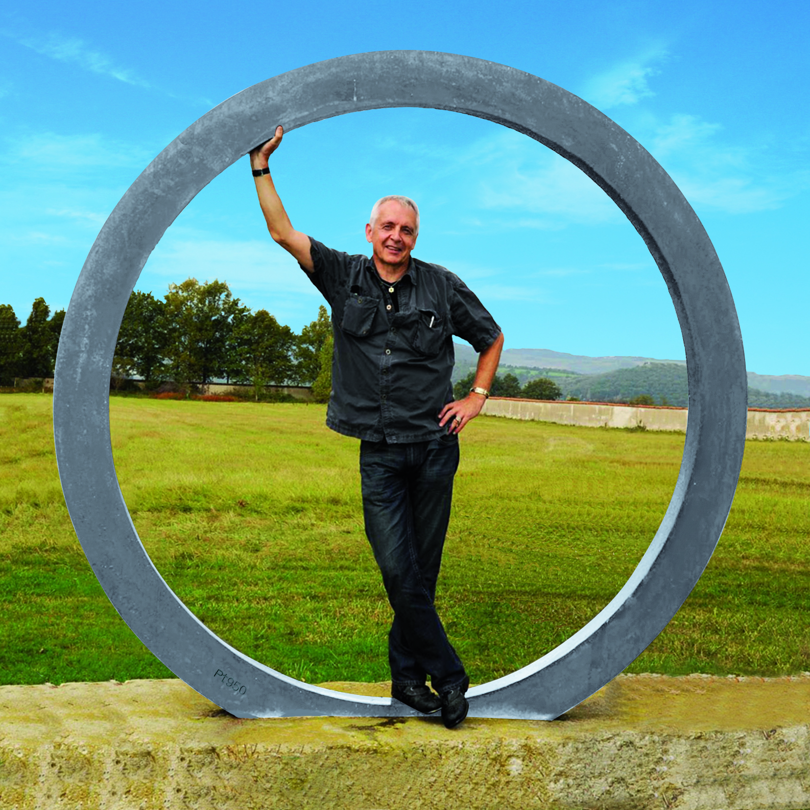 Philippe Tournaire